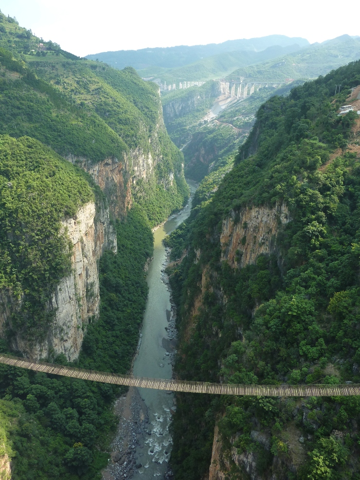 The Beipanjiang Railway Bridge in Guizhou province, China